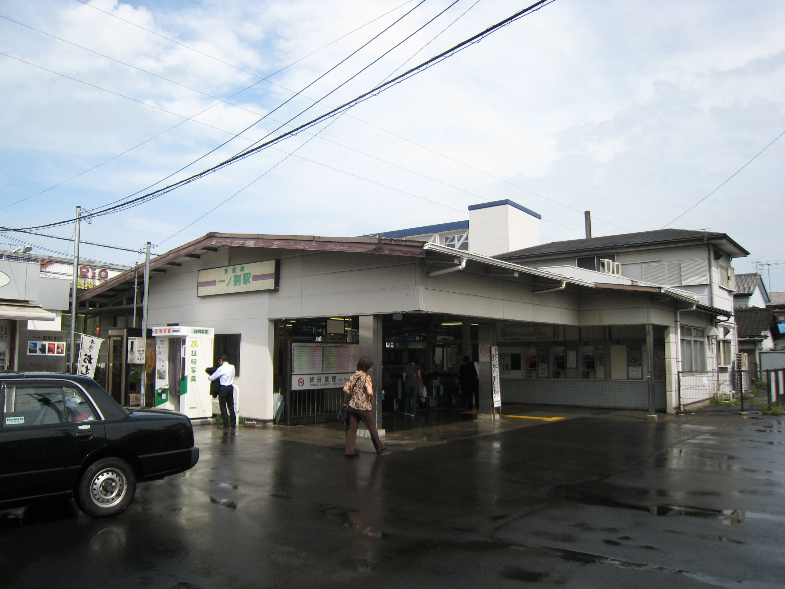 一ノ割駅（東武伊勢崎線）。Ichinowari station, Tobu Isesaki Line, Saitama prefecture, Japan